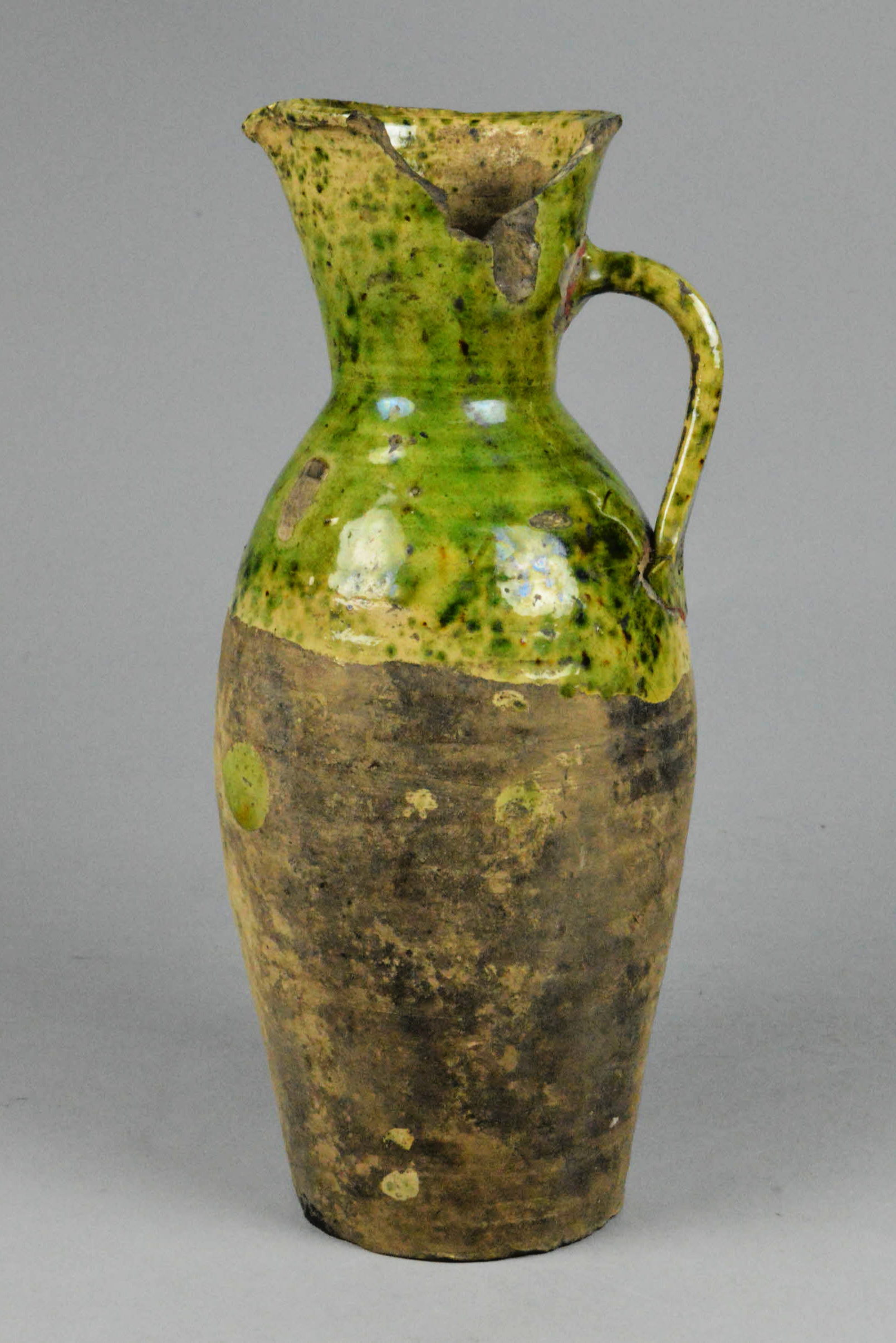 Border ware jug. Tudor green-glaze. Funnel-shaped neck and tall body. Height 23.3 cm